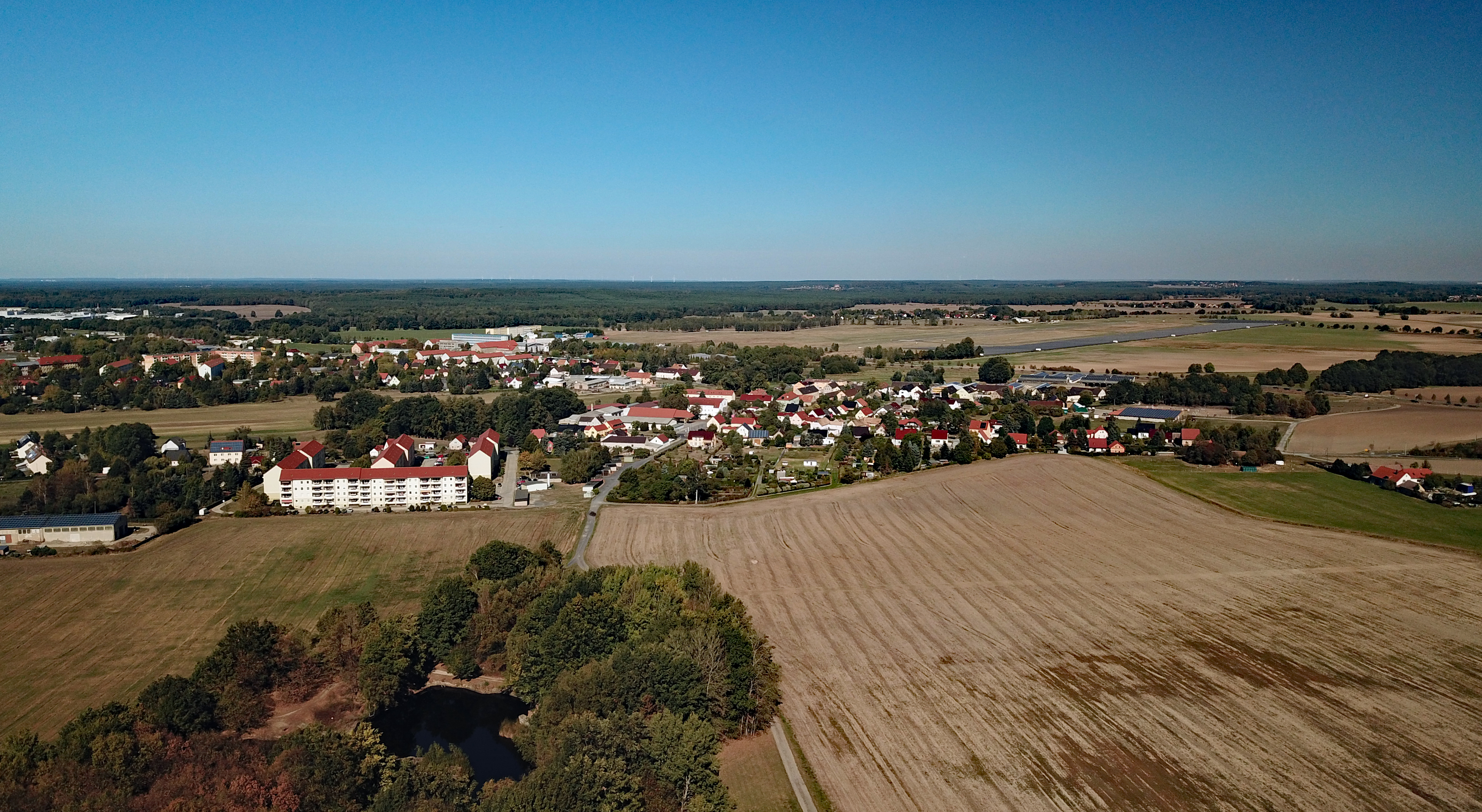 Jesau (Kamenz, Saxony, Germany) Hornjoserbsce: Powětrowy wobraz Jěžowa